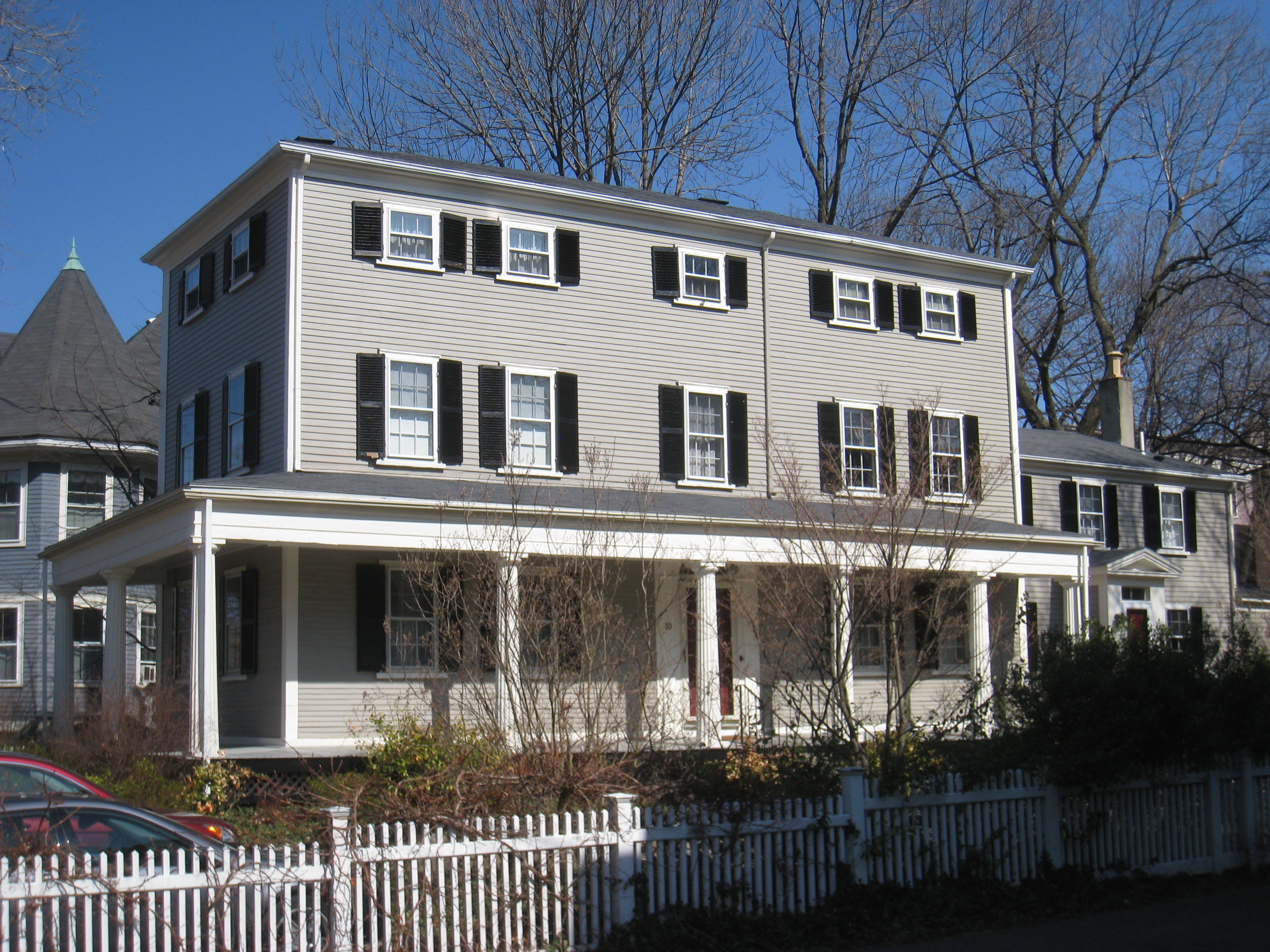 Walter Frost House, 10 Frost Street, Cambridge, Massachusetts, USA. This building is listed on the National Register of Historic Places.